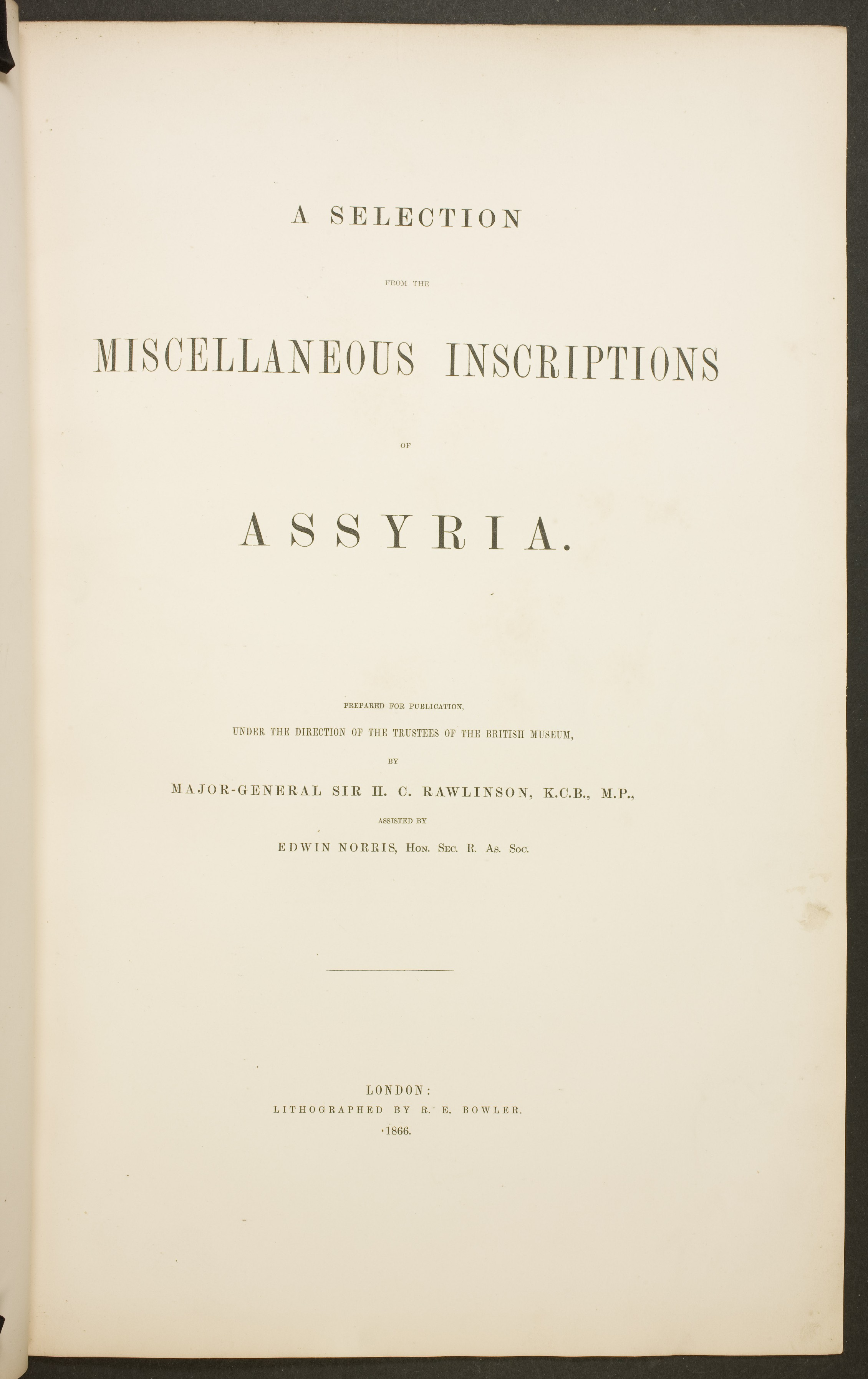 The Cuneiform Inscriptions of Western Asia. Vol. II: A Selection from the Miscellaneous Inscriptions of Assyria